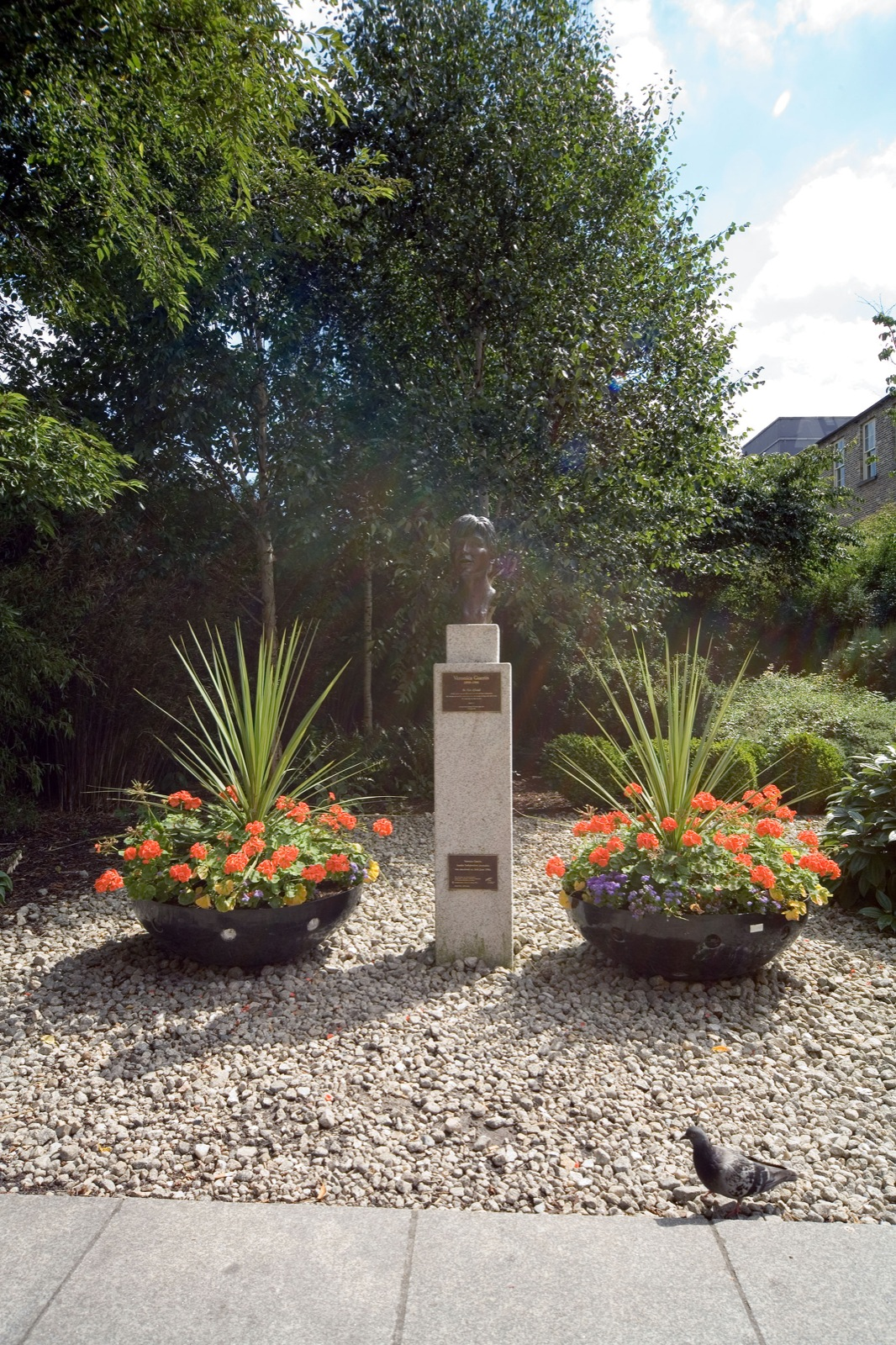 On June 26, 1996, when Guerin was sitting in her red Opel Calibra at an intersection outside Dublin, one of two men sitting on a motorcycle beside her car fatally shot her five times. Guerin's murder caused outrage, and Taoiseach John Bruton called it "an attack on democracy". The following criminal investigation led to over 150 arrests and a hunt against Irish organised criminal gangs. Two films have been based on her story: When the Sky Falls (2000, starring Joan Allen as "Sinead Hamilton"), and Veronica Guerin (2003, starring Cate Blanchett). The American progressive metal band, Savatage, included a song based on her story on their 1998 album, The Wake of Magellan. The Irish musician Christy Moore wrote a song, Veronica in her honour.